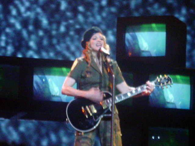 Concert